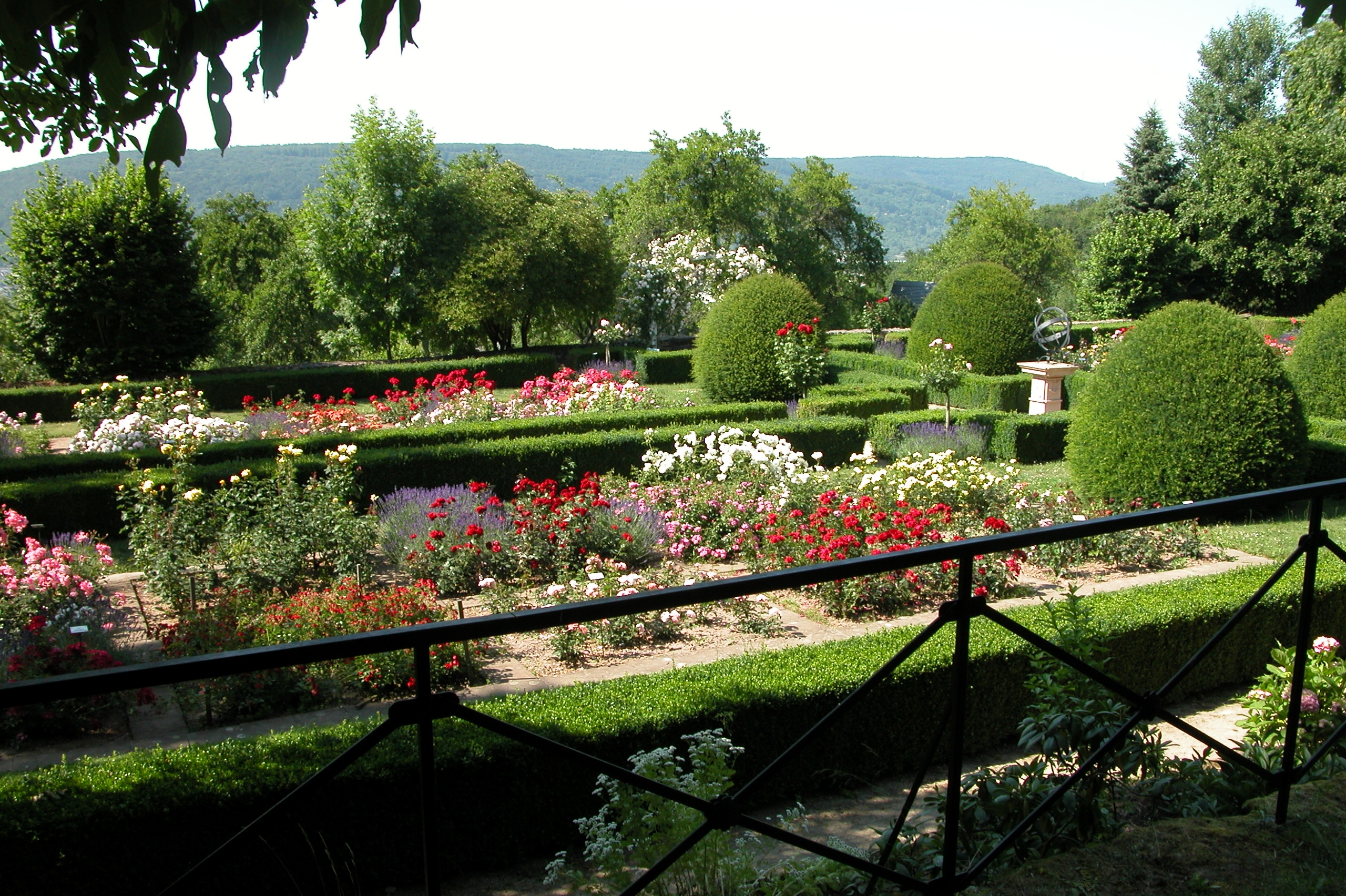 Open air museum Roscheider Hof, Germany, Rose Garden